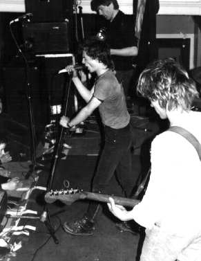 Flux of pink indiand, 1981